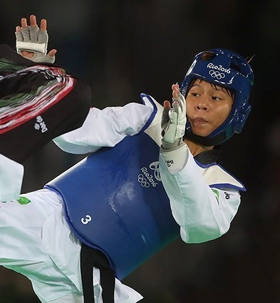 Taekwondo at the 2016 Summer Olympics women 57kg